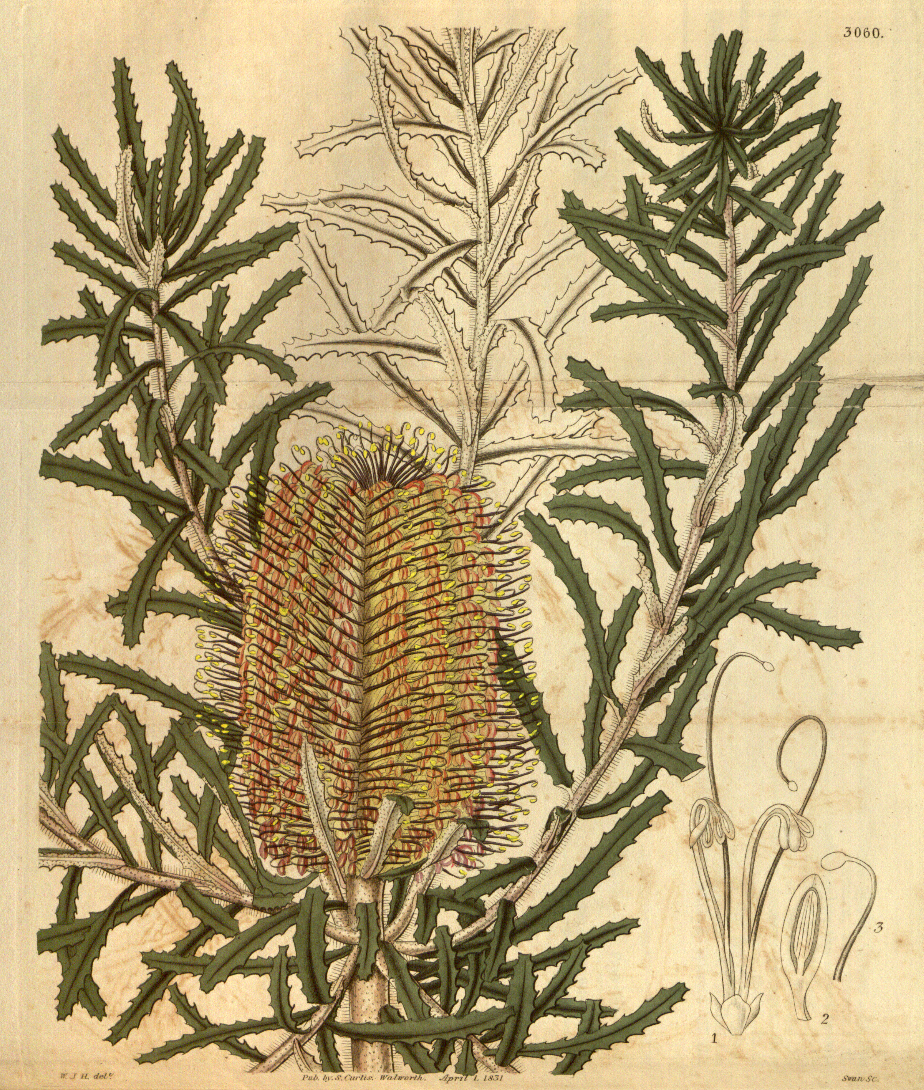 This is a plate from Curtis's Botanical Magazine, Volume 58.